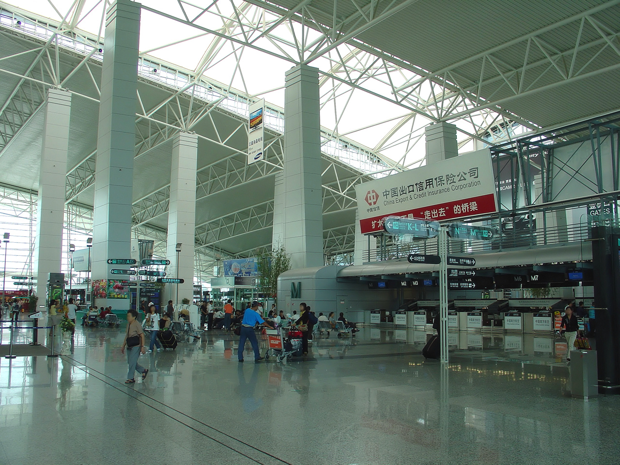 Departure Lobby of Guangzhou Baiyun International Airport.(Guangzhou City, Guangdong province, China)